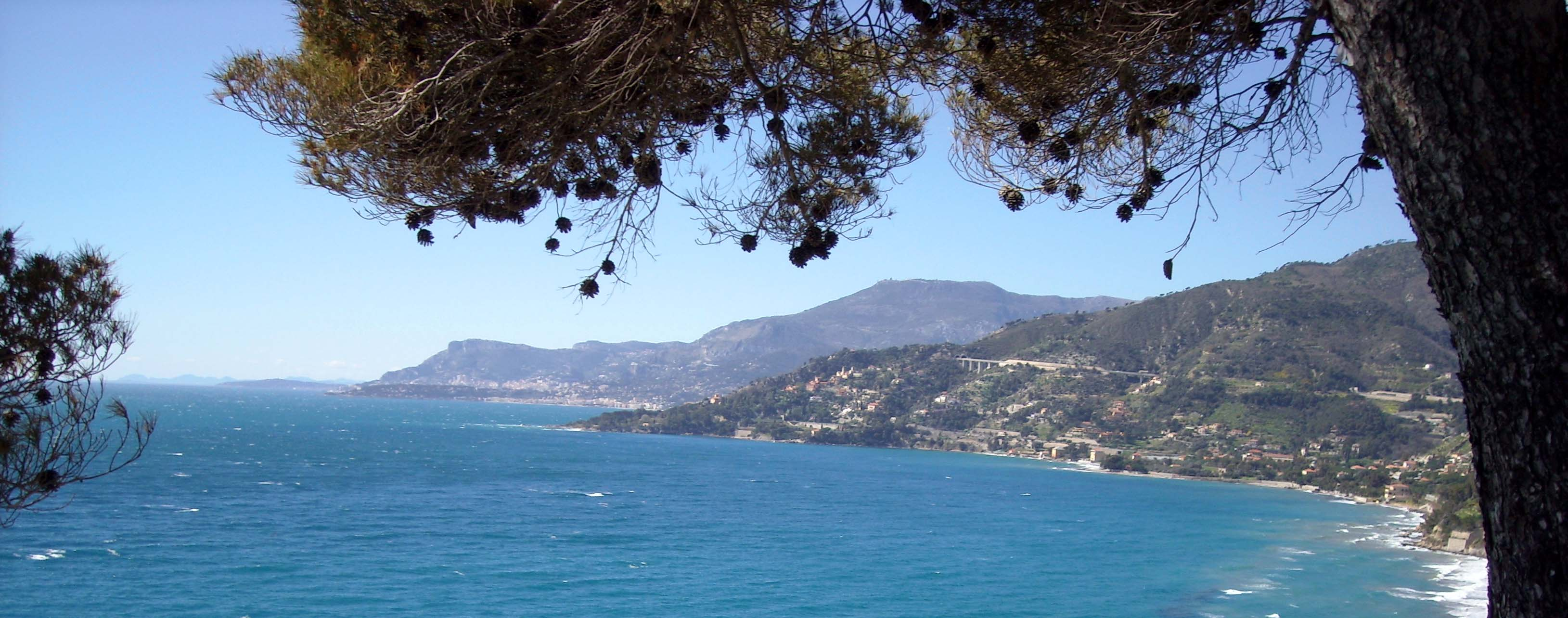 Cap of Mortola seen from the fortress of Annunziata in Ventimiglia, Liguria, Italy.